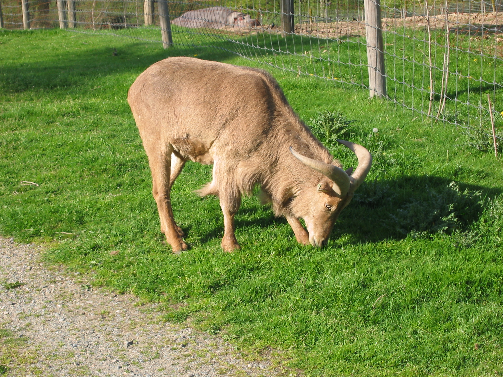 Aoudad at Greater Vancouver Zoo.